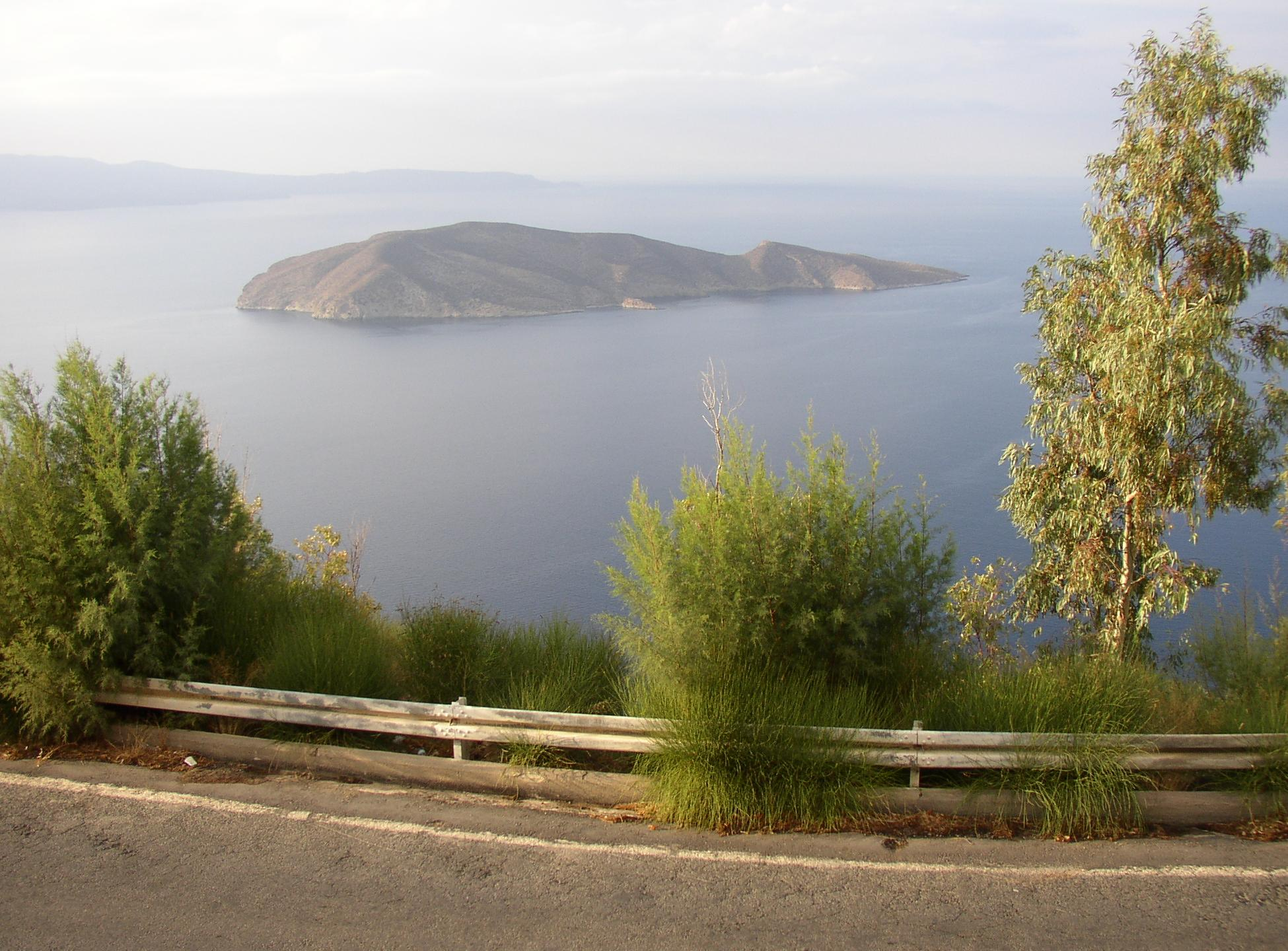 Gulf of Mirabella and island of Pseira, Crete, Greece